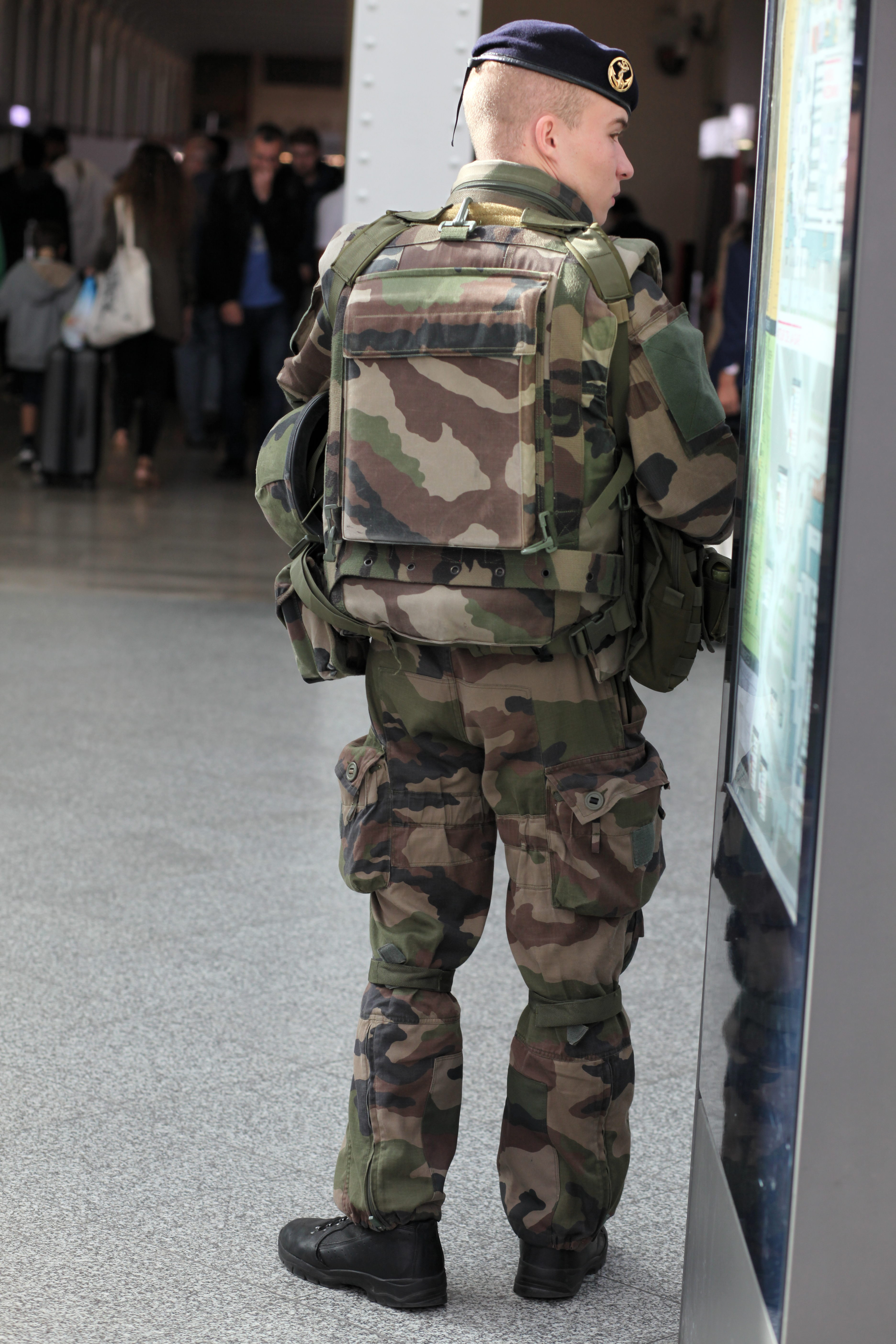 French Marines at the Gare de Lyon